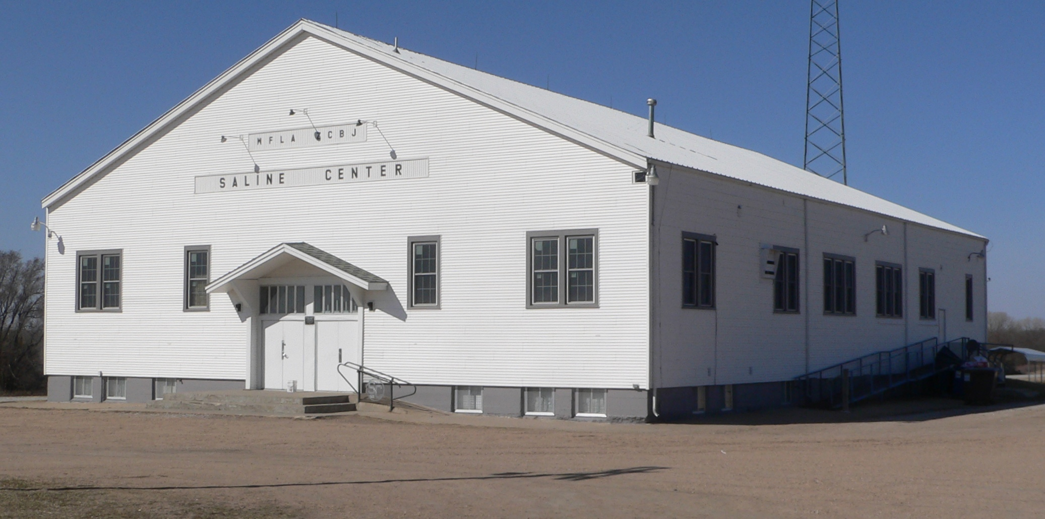 Saline Center, located at 1102 M in rural Saline County, Nebraska; at the northeast corner of M and Nebraska Highway 15; north of Western, Nebraska. The building faces south, toward M. View is from the southeast.